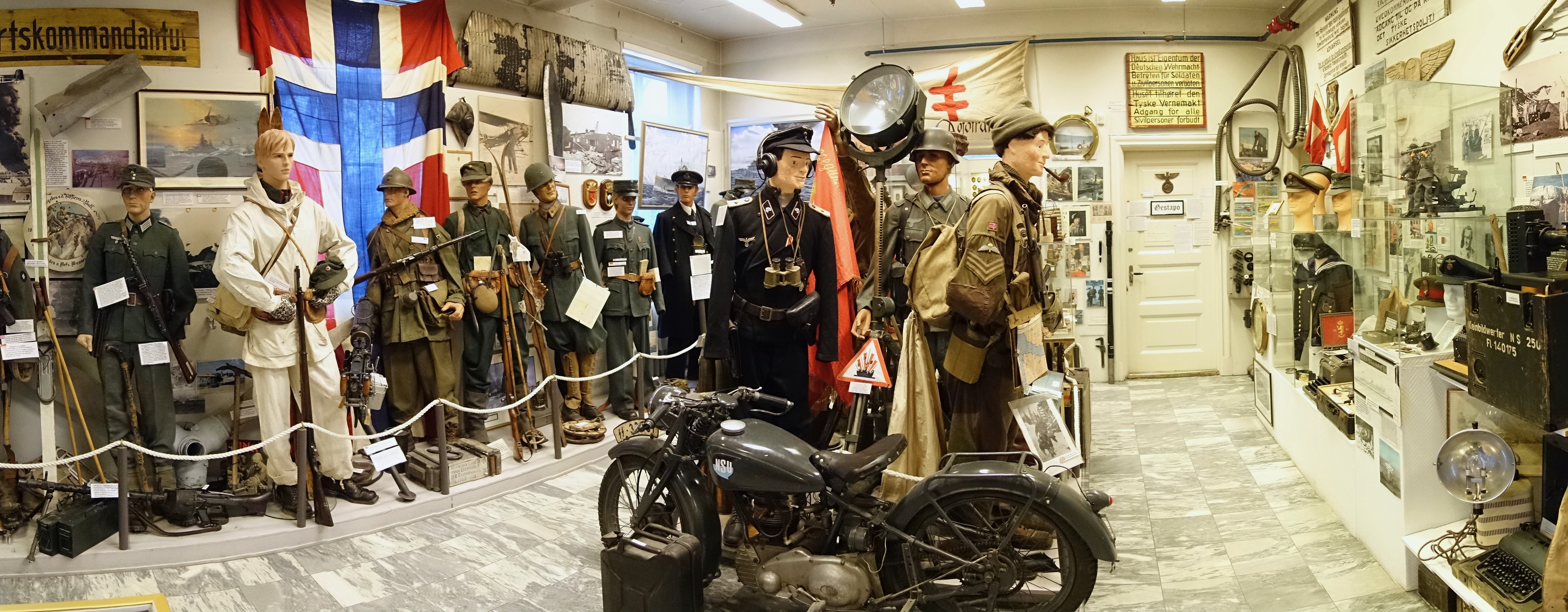 Misc. German, Norwegian, French, and British WW2 uniforms, weapons and military equipment, NSU motorbike, flags, signs, Gestapo door, winter camouflage, photos, rare objects, civil items, etc.Distorted panorama photo taken on May 8, 2019 at the Lofoten War Memorial Museum (Lofoten Krigsminnemuseum) in Svolvær, Norway. The museum exhibits uniforms, militaria, smaller items, memorabilia, etc. related to World War II and the German occupation of Norway 1940 – 1945. Door to the ‘Gestapo room’ at Lofoten War Memorial Museum Legal disclaimer This image shows (or resembles) a symbol that was used by the National Socialist (NSDAP/Nazi) government of Germany or an organization closely associated to it, or another party which has been banned by the Federal Constitutional Court of Germany. The use of insignia of organizations that have been banned in Germany (like the Nazi swastika or the arrow cross) are also illegal in Austria, Hungary, Poland, Czech Republic, France, Brazil, Israel, Ukraine, Russia and other countries, depending on context. In Germany, the applicable law is paragraph 86a of the criminal code (StGB), in Poland – Art. 256 of the criminal code (Dz.U. 1997 nr 88 poz. 553).